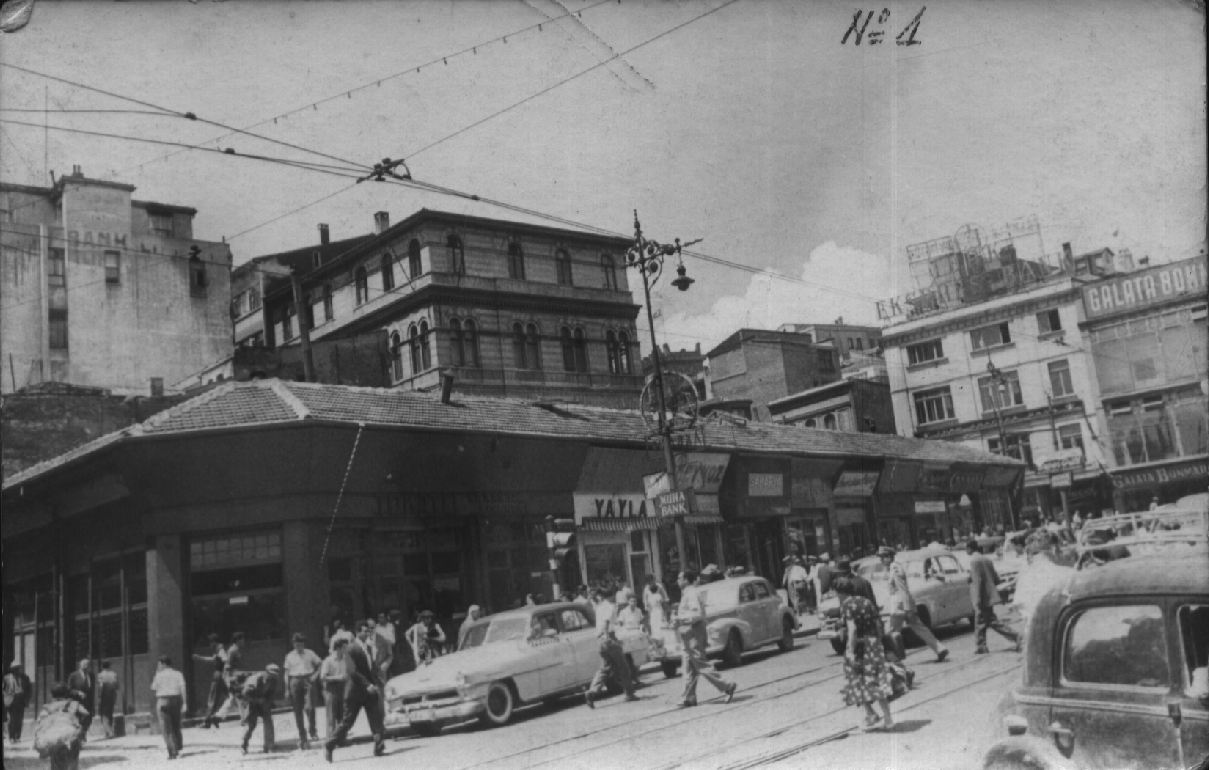 Under the leadership of Adnan Menderes, the Democrat Party introduced the law “Public Works and Confiscation” in 1956, within the scope of the İstanbul Zoning Project. This extensive zoning program was presented as a solution to the excessive traffic problem in the city, to provide public spaces around historic building, and to enable the restoration of monumental buildings. The project design included large boulevards that would pass through historical areas such as Kemeraltı Street between Karaköy and Tophane. Karaköy was transformed by the connection of its six main streets to one square, with historical buildings such as Old Borsa Inn and Merzifonlu Kara Mustafa Paşa Mosque, designed by Raimondo D’aronco, being eradicated. Ultimately the implimentation of this law led to the dereliction of more than ten thousand Buildings. SALT Research, Photography Archive and Ali Saim Ülgen Archive Adnan Menderes liderliğindeki Demokrat Parti hükümeti, 1956’da İstanbul İmar Projesi kapsamında yeni bir imar kanunu, bir süre sonra da istimlak kanunu çıkardı. Geniş kapsamlı bu imar operasyonuna gerekçe olarak, kent içi trafiğin rahatlatılması, meydan ve camilerin çevrelerinin açılması ve dinî yapıların restore edilmesi gerekliliği gösterildi. Tarihsel dokunun yoğun olduğu yerlerden geçecek geniş bulvarların öngörüldüğü proje için, aralarında tarihî eserlerin de olduğu 10 binden fazla yapı istimlak edilerek yıkıldı. Karaköy-Tophane arasında kalan Kemeraltı Caddesi ve Karaköy-Azapkapı bağlantısı bu proje kapsamında hayata geçirildi. Altı ana caddesinin bir meydana bağlanması suretiyle dönüştürülen Karaköy’de, Eski Borsa Hanı ve Raimondo D’aronco tarafından tasarlanmış olan Merzifonlu Kara Mustafa Paşa Camii başta olmak üzere birçok tarihi yapı yok edildi. SALT Araştırma, Fotoğraf Arşivi ve Ali Saim Ülgen Arşivi